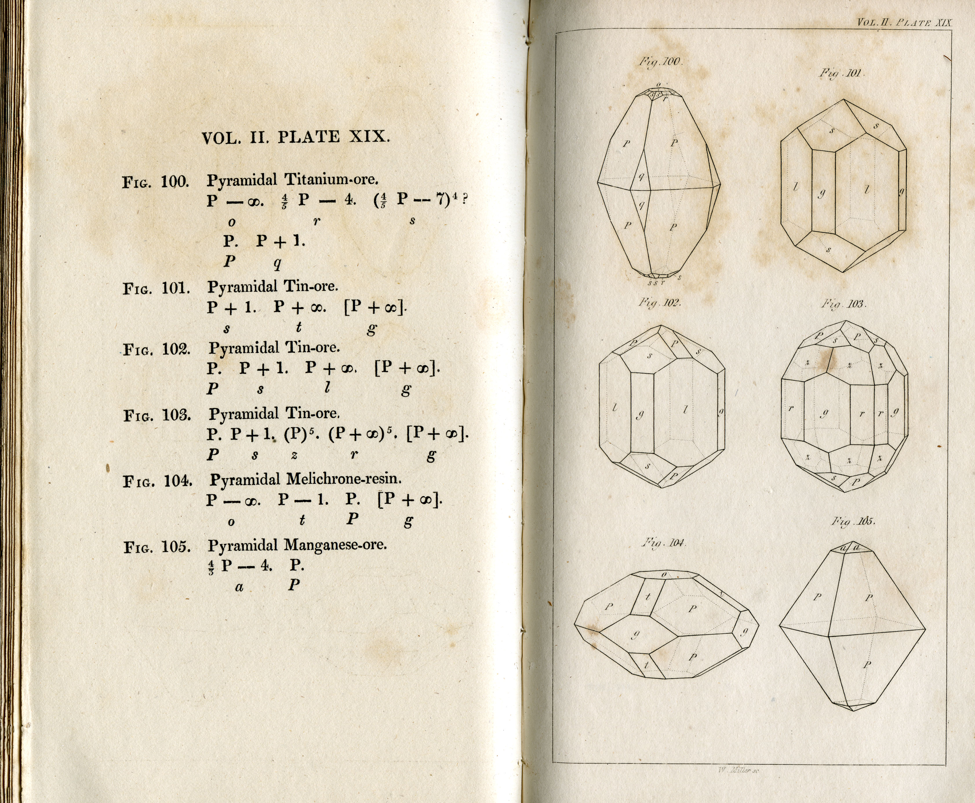 copper engravings of crystal structures by William Miller from Treatise on Mineralogy by Friedrich Mohs, translated by William Haidinger FRSE, 1825